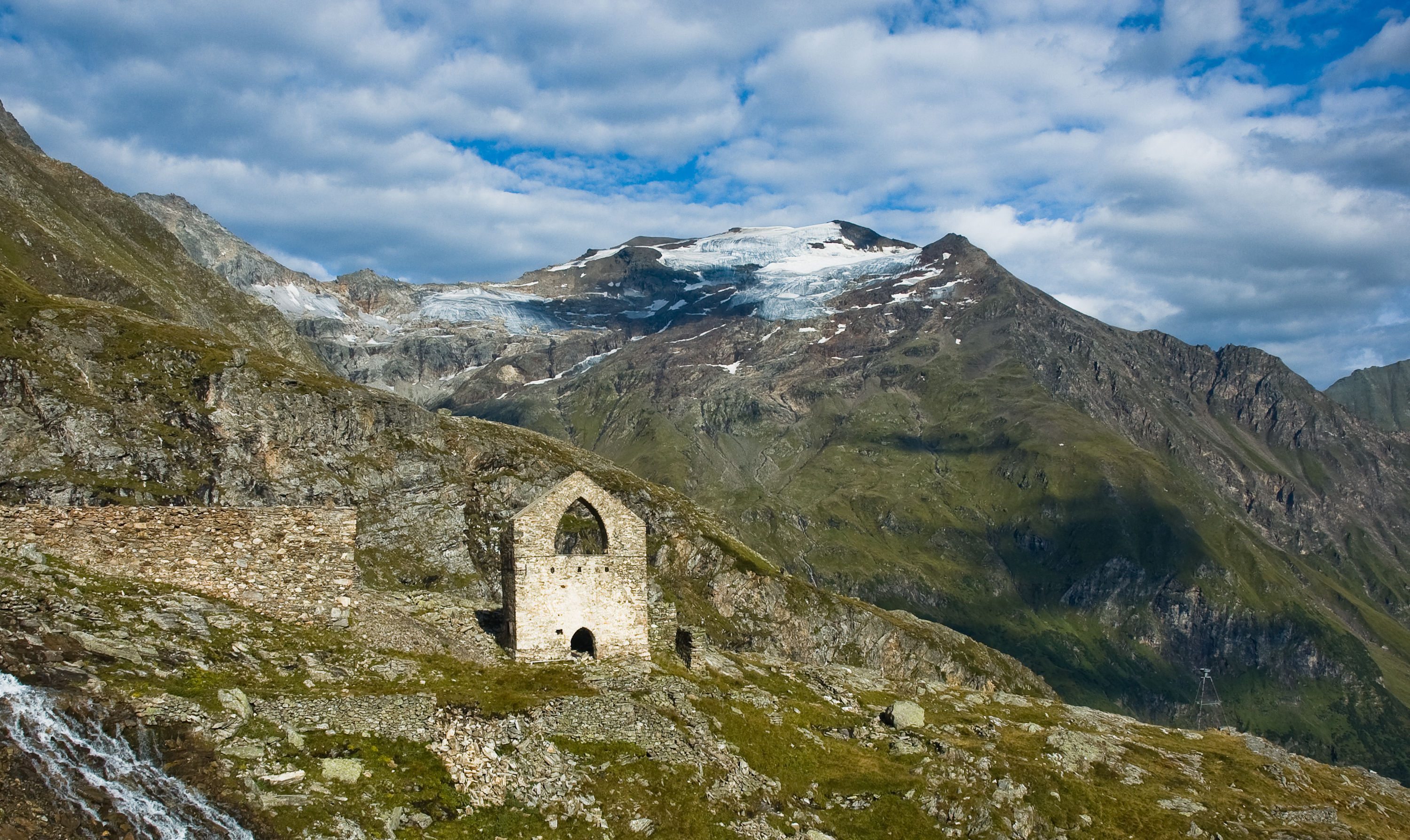 The old Radhaus of the former gold mine near Schutzhaus Neubau, Goldberg Group, state of Salzburg, Austria. In the background the Hocharn (3254m).